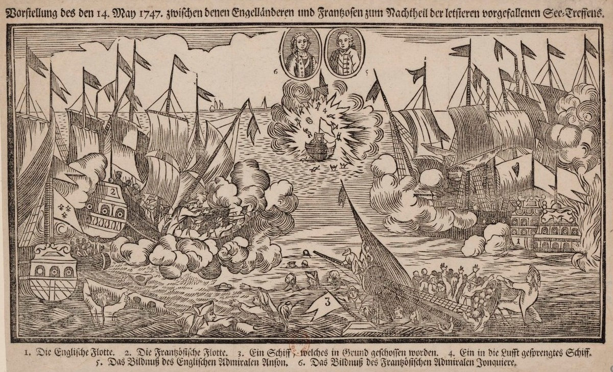 Battle of Cape Ortegal, May 1747. Woodblock print in German.